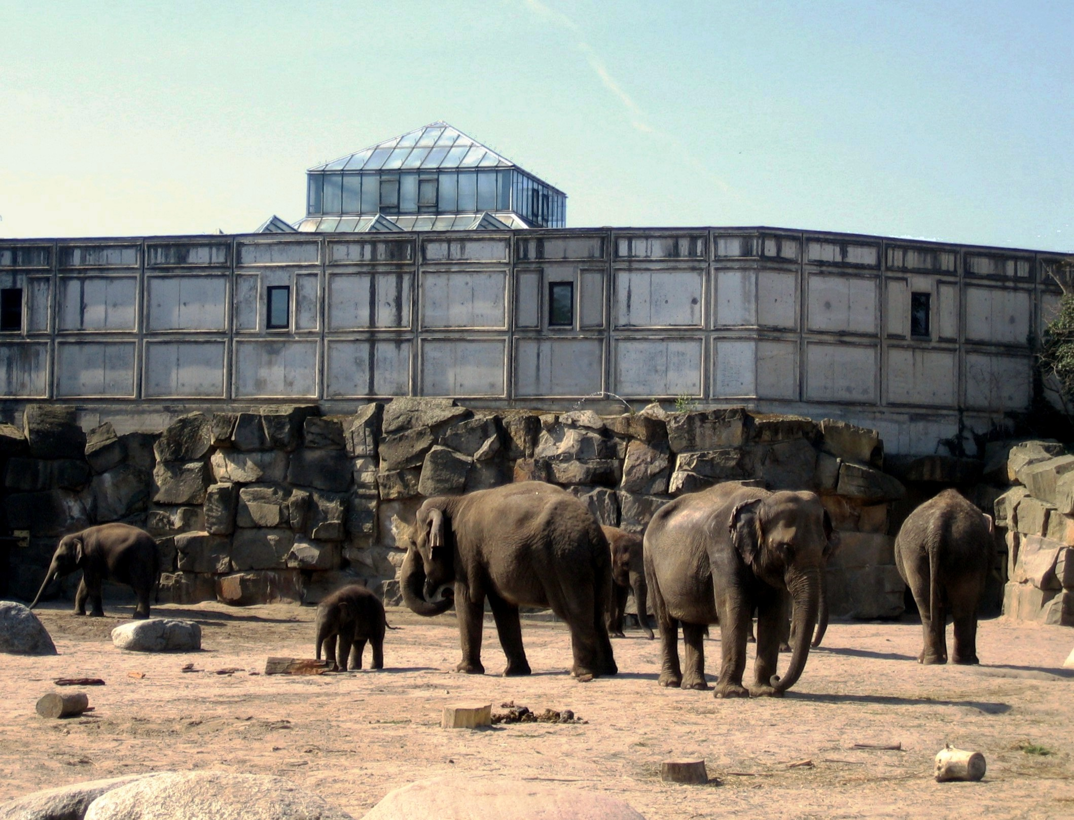 The "Tierpark Berlin" in Berlin-Friedrichsfelde, one of two zoos in Berlin (Germany). Elephants.